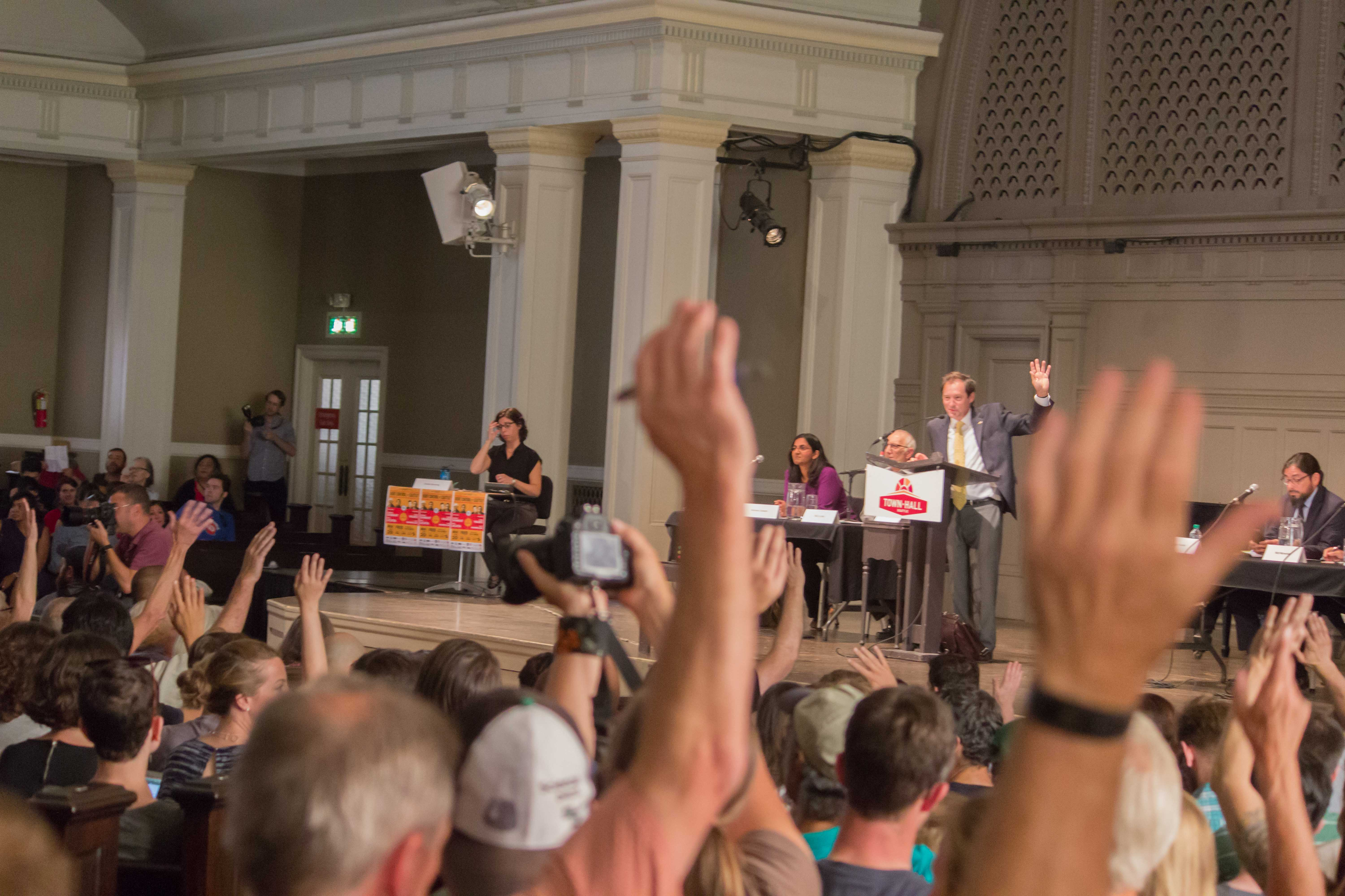 Rent Control Debate at Town Hall Seattle